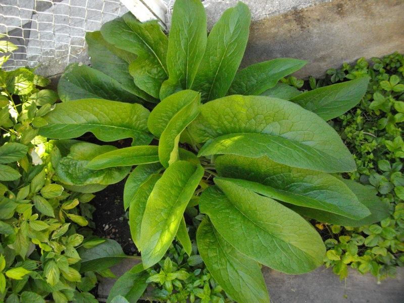 This is a picture of the great Comfrey (Symphytum officinale) growing in a garden in France, near Paris